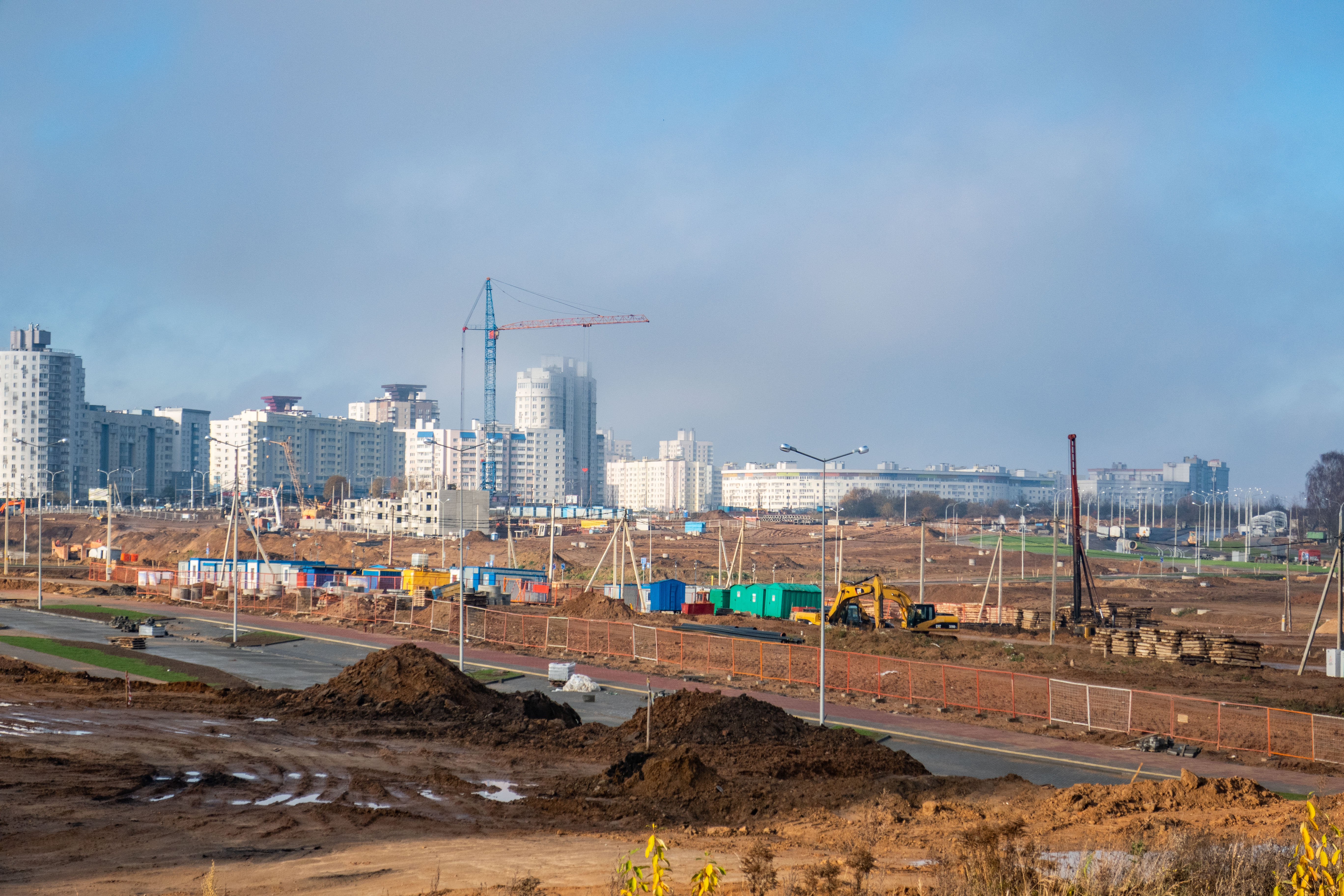 Construction of Lošyca-8 residential complex. Minsk, Belarus